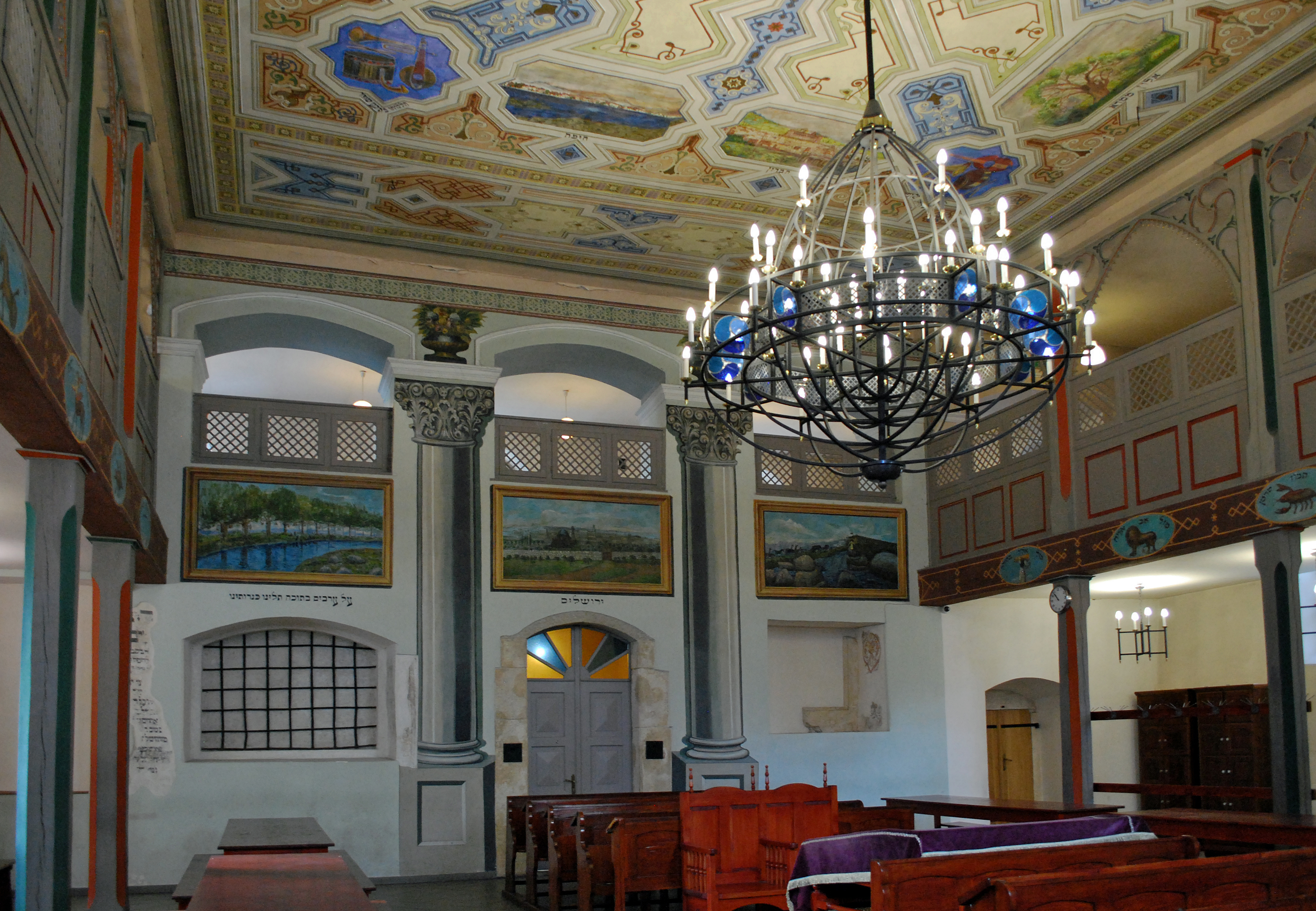 Kupa (Kasa) Synagogue, interior W1, 27 Miodowa street, Kazimierz, Kraków, Poland